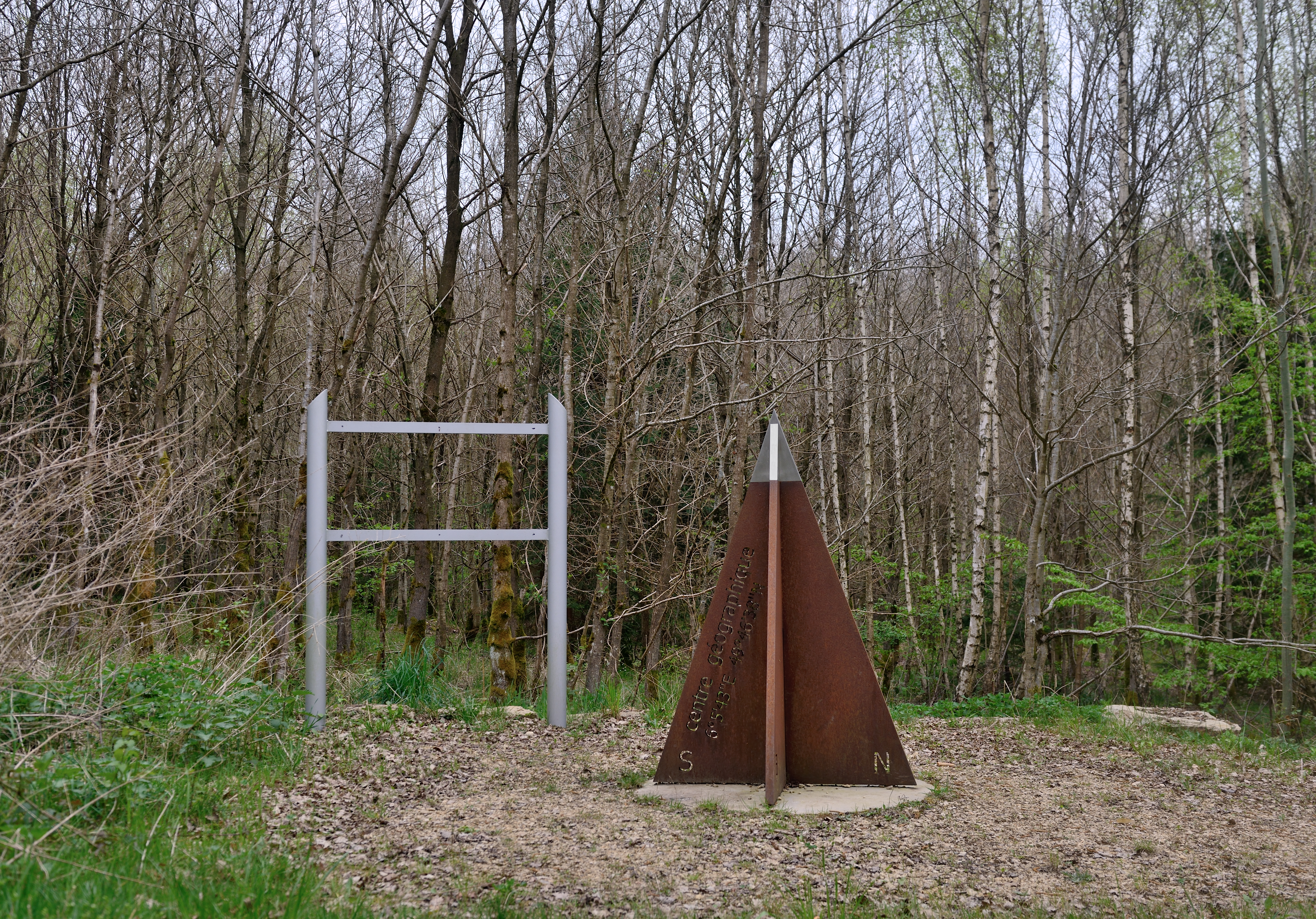 Luxembourg, Pettingen: survey marker placed at the geographic centre of Luxembourg. The marker was placed in 2011.